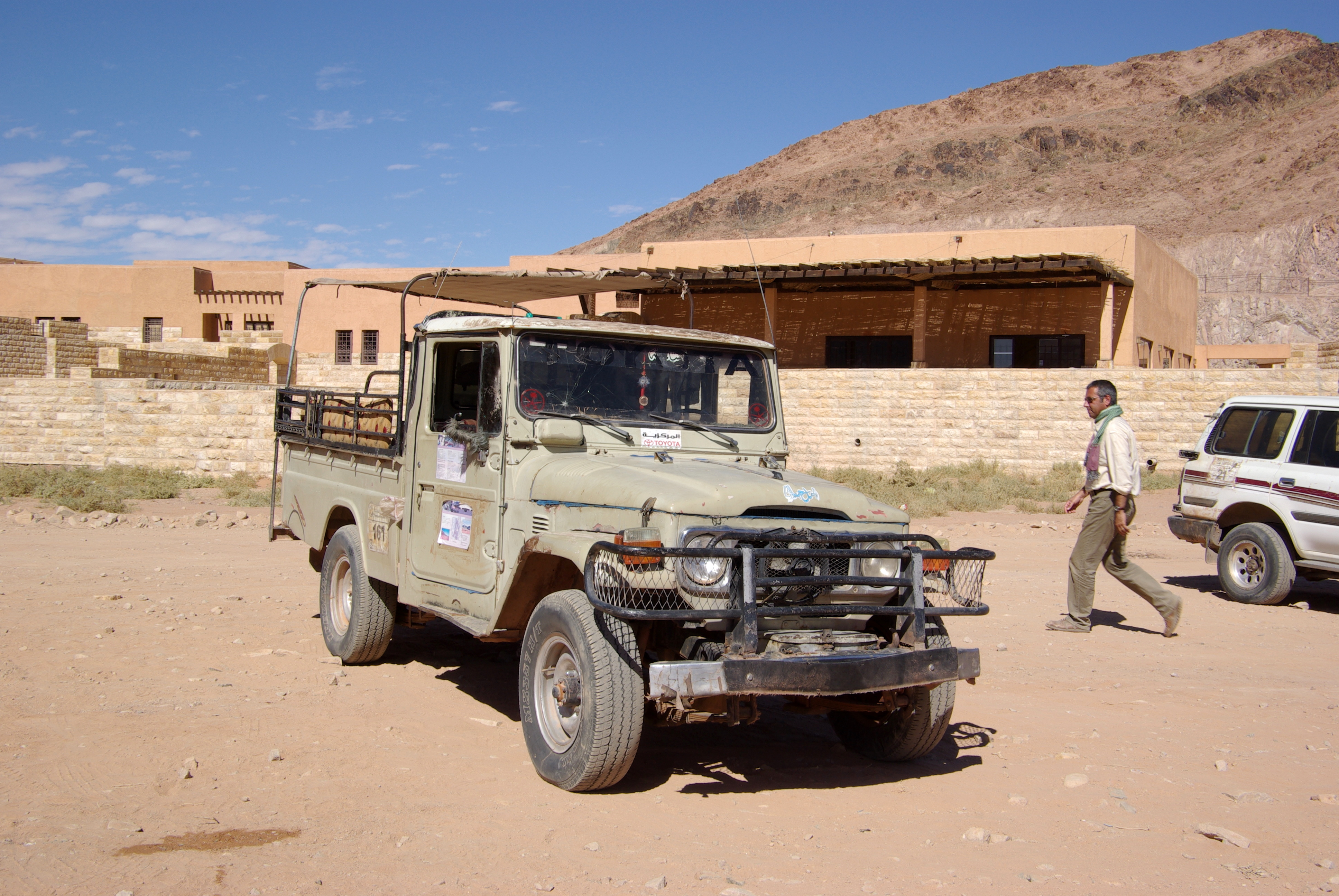 Toyota Land Cruiser for excursions to Wadi Rum